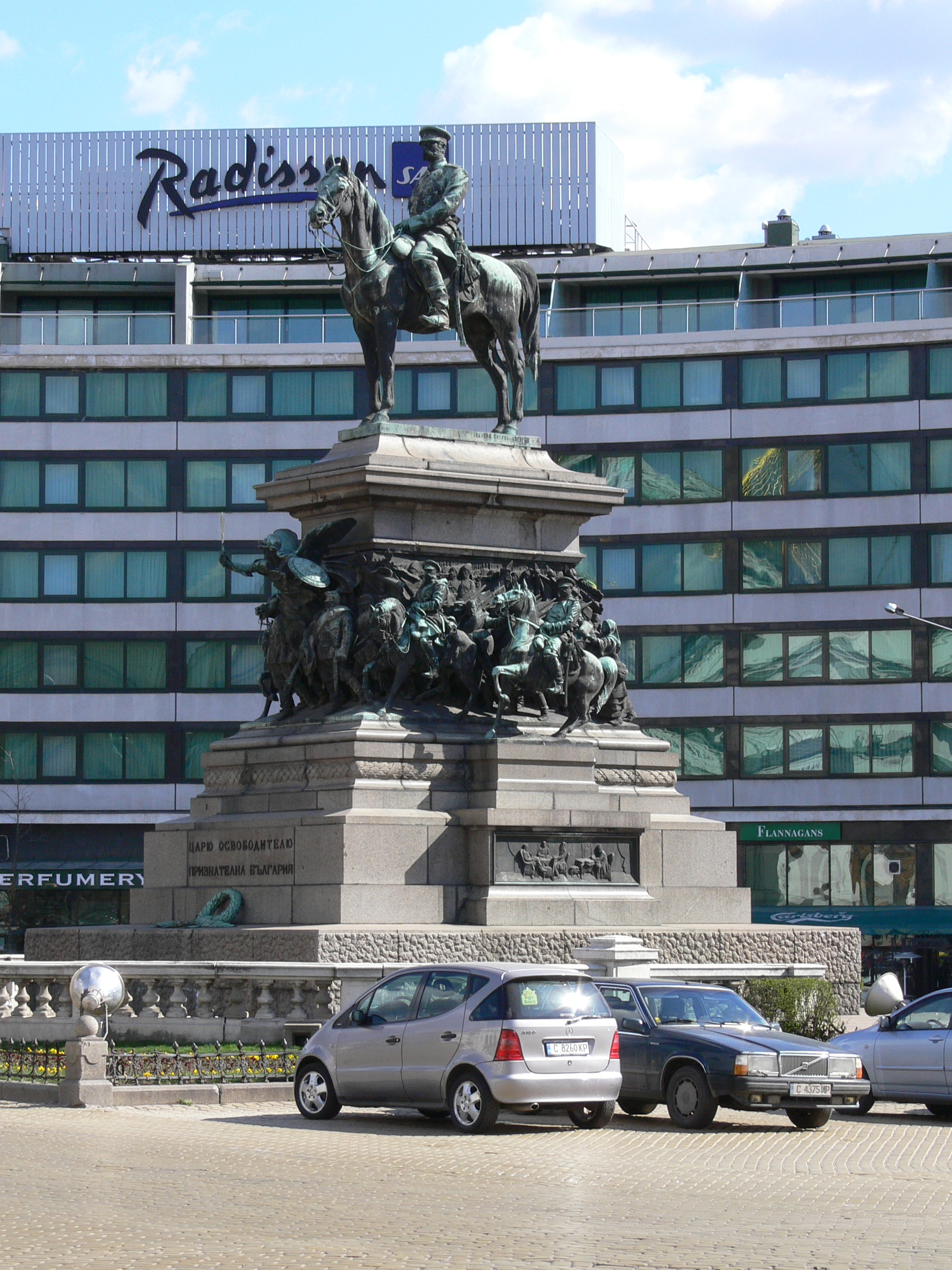 Monument to the Russian Tsar Liberator Alexander II, Sofia, Bulgaria